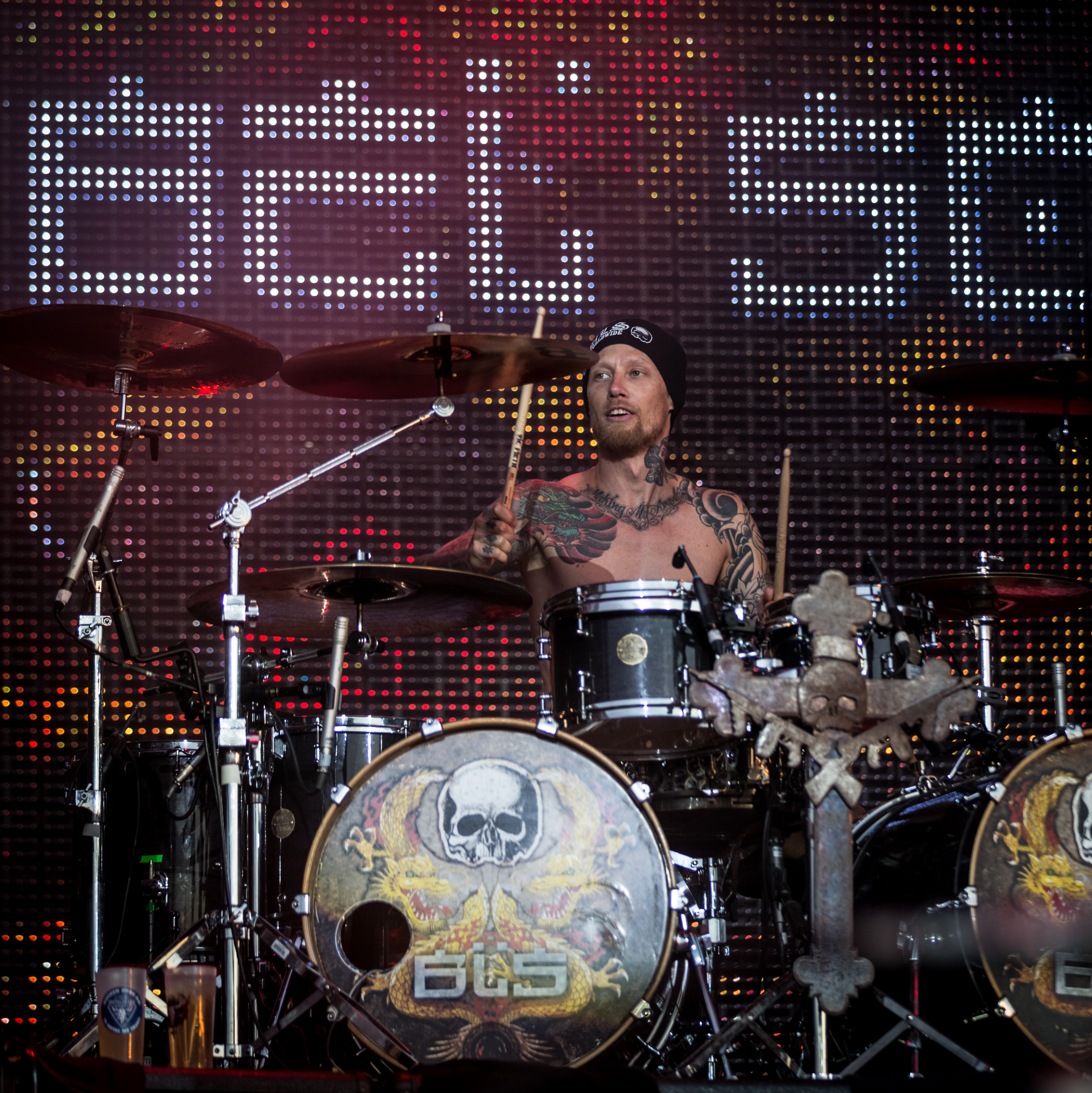 Black Label Society - Wacken Open Air 2015